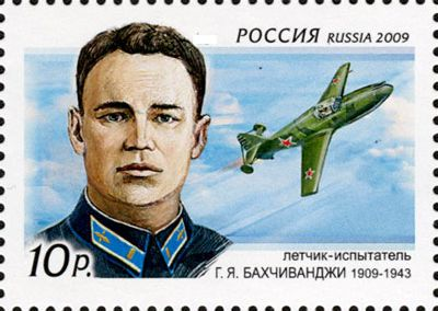 Stamps of Russia. Pilots (continuation of series). The 100th birth of test-pilot G.Y.Bakhchivandzhi (1909-1943), 2009